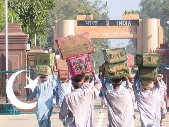 Wagah border pakistan side.